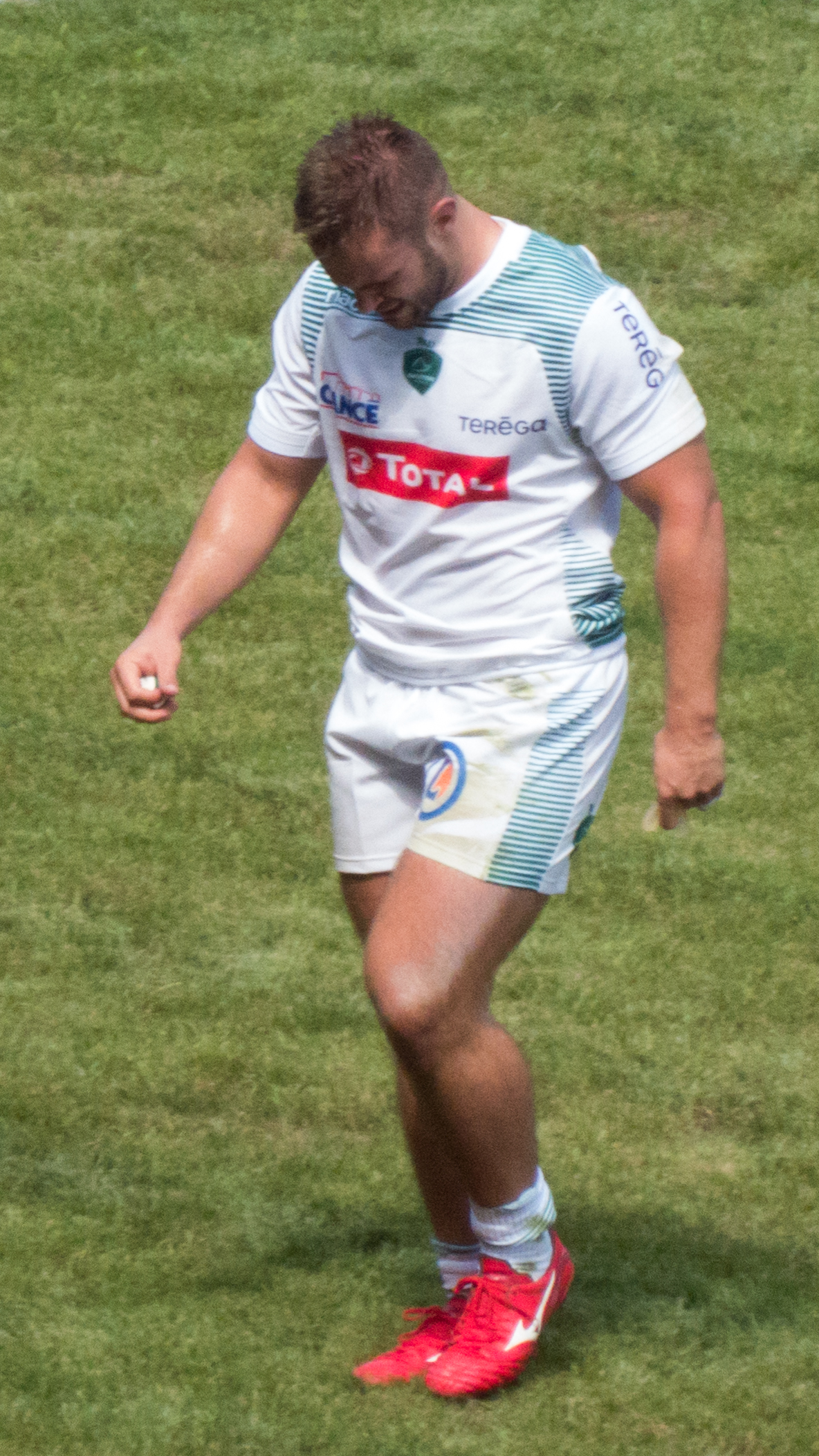 2018–19 Top 14 season — 1 September 2018, Stade du Hameau. Match between: Section Paloise — RC Toulonnais